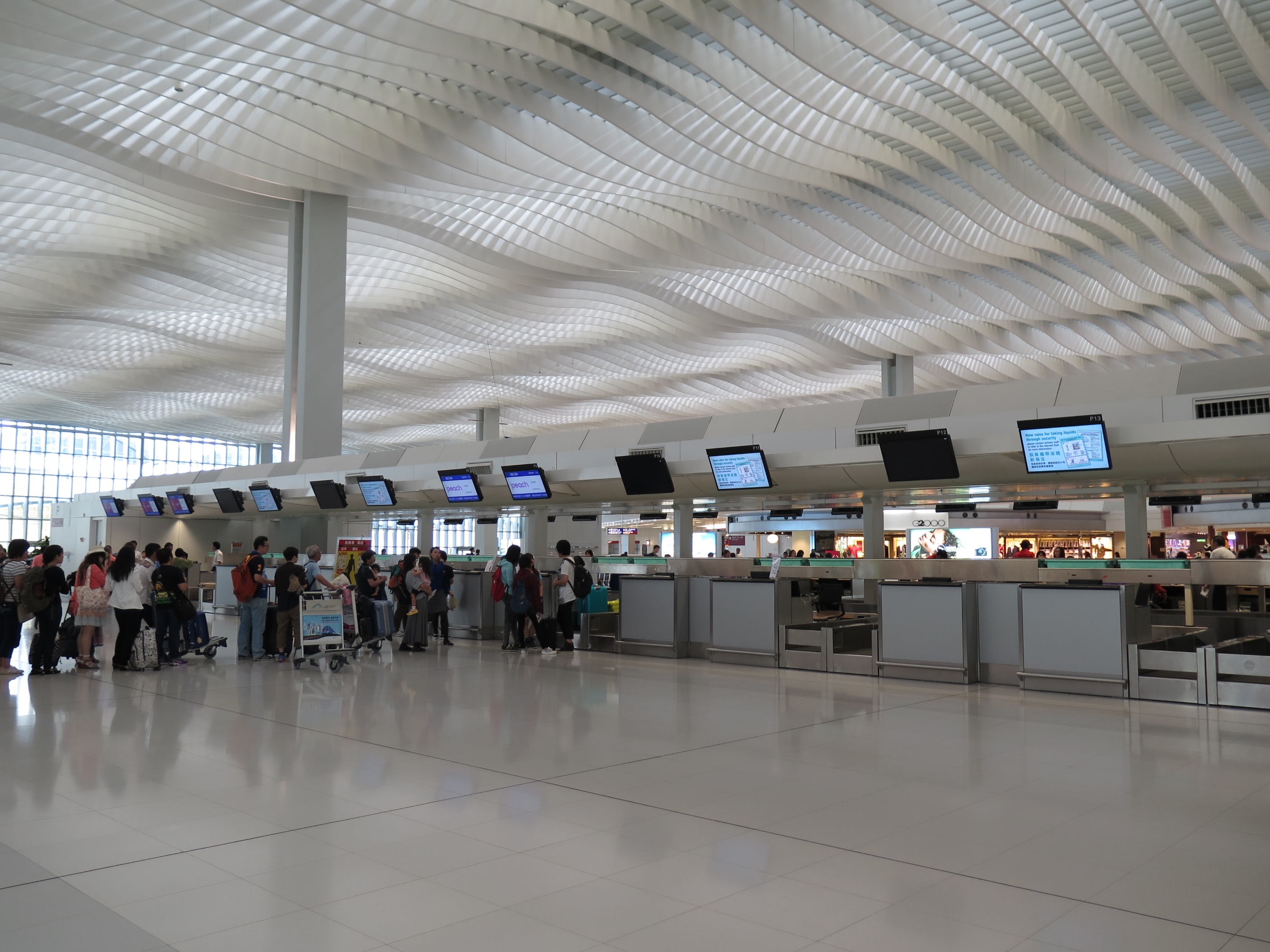 HK International Airport Terminal 2 kiosk